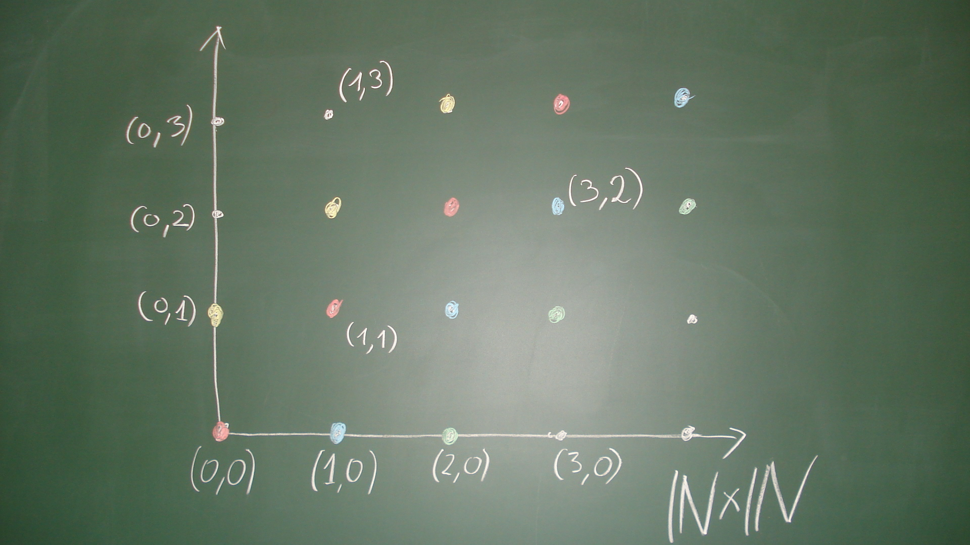 foto of blackboard picture of a construction of a model for the integers